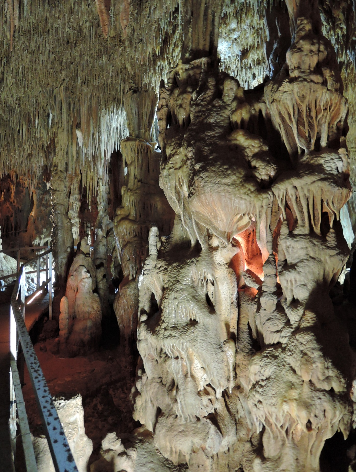 The Petralona cave, Chalkidiki, Greece.